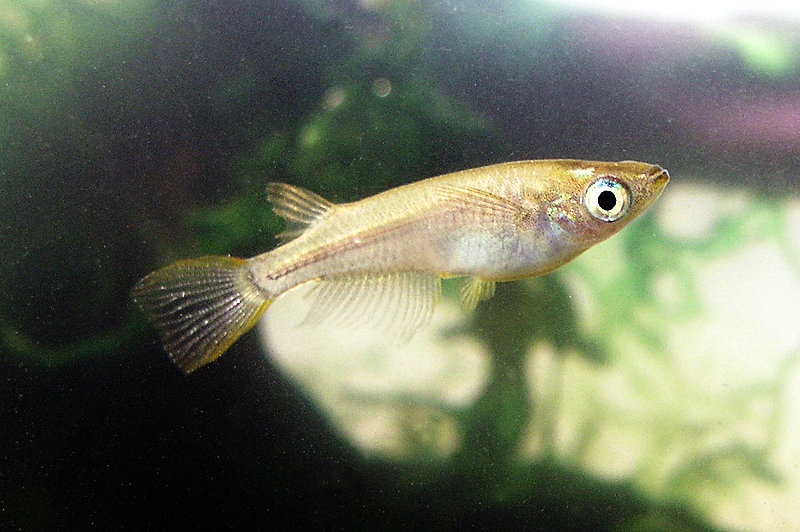 Japanese ricefish, Japanese killifish(Oryzias latipes)